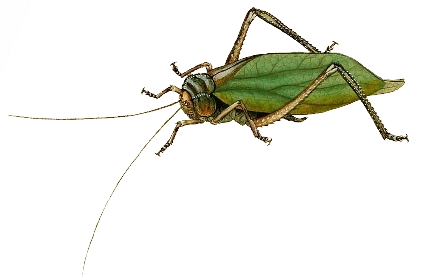 Edward Donovan An Epitome of the Natural History of the insects of India [1800] Locusta amboinensis synonym for Arachnacris amboinensis (Donovan, 1800)